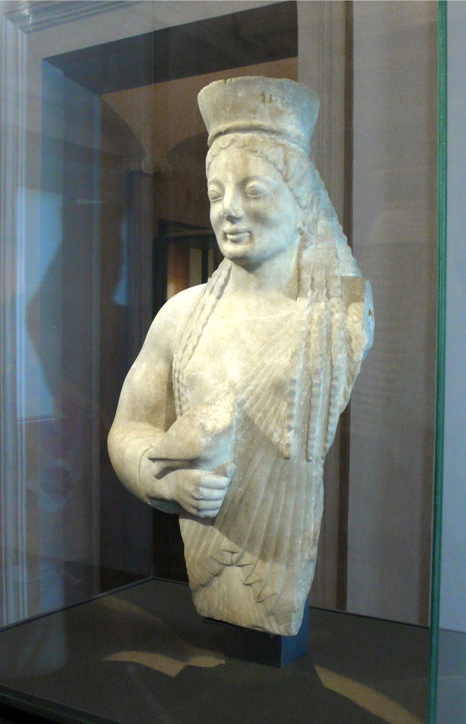 On the Acropolis of Athens in 6th century BC, the statues of young people, including this Kore - literally "young girl" in Greek - along with her male counterparts, the Kouros, are dedicated to Athena.